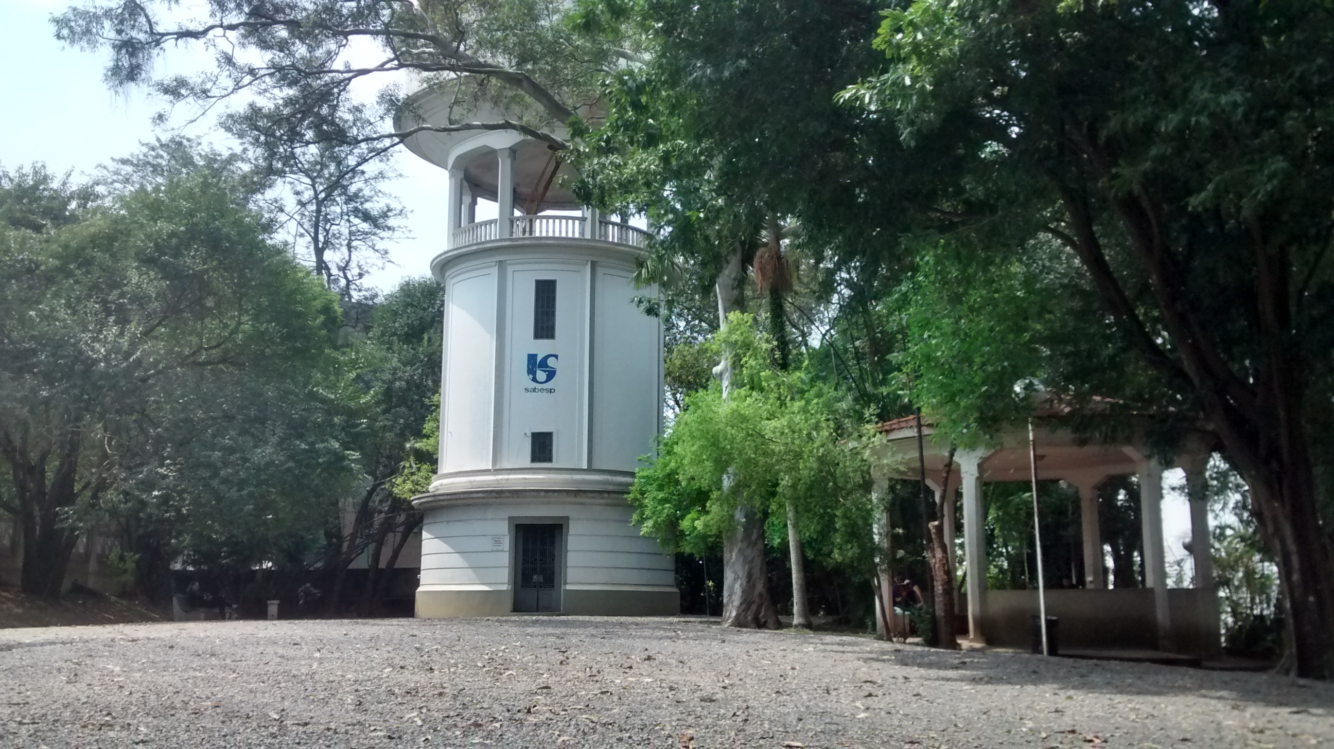 Imagem central do Reservatório do Sumaré, em São Paulo (SP), Brasil.